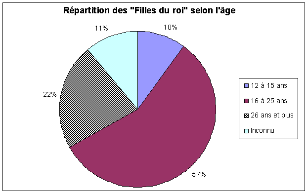 Pie chart showing the age distribution of the filles du roi, 1663-1673.